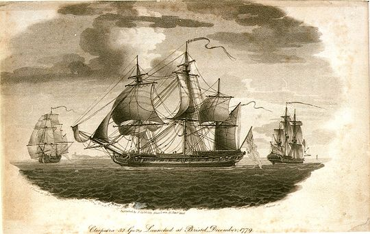 Cleopatra 32 Guns Launched at Bristol, December, 1779